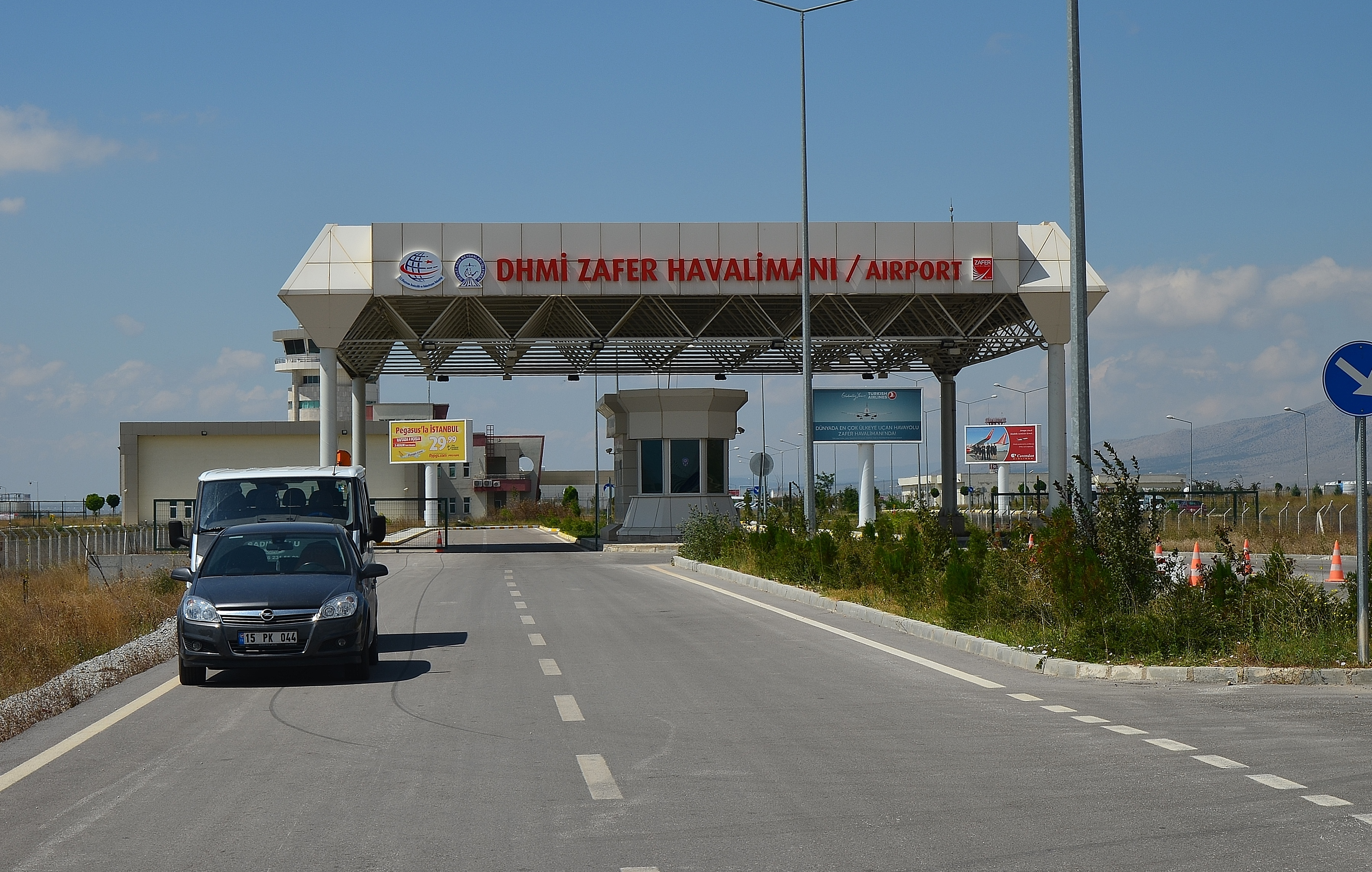 Entrance to Zafer Airport in Kütahya, Turkey